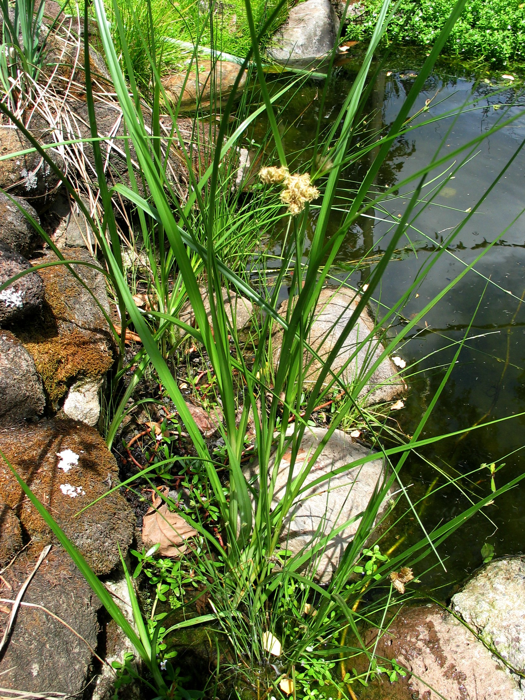 Kaluhā or Saltmarsh bulrush Cyperaceae Indigenous to the Hawaiian Islands Oʻahu (Cultivated) This indigenous sedge is not known to be used by early settlers in the Hawaiian Islands. However, in other parts of the world the seeds were used as a food source and the leaves were used in making baskets, mats, sandals, and clothing. NPH00001